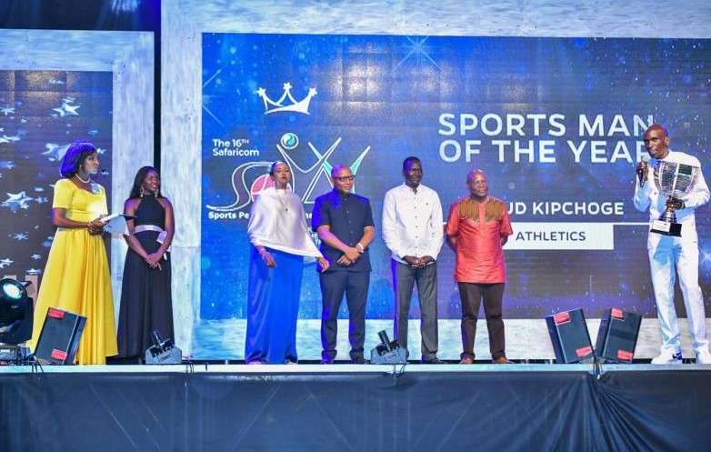 Idah Waringa hosts Safaricom Sports Awards